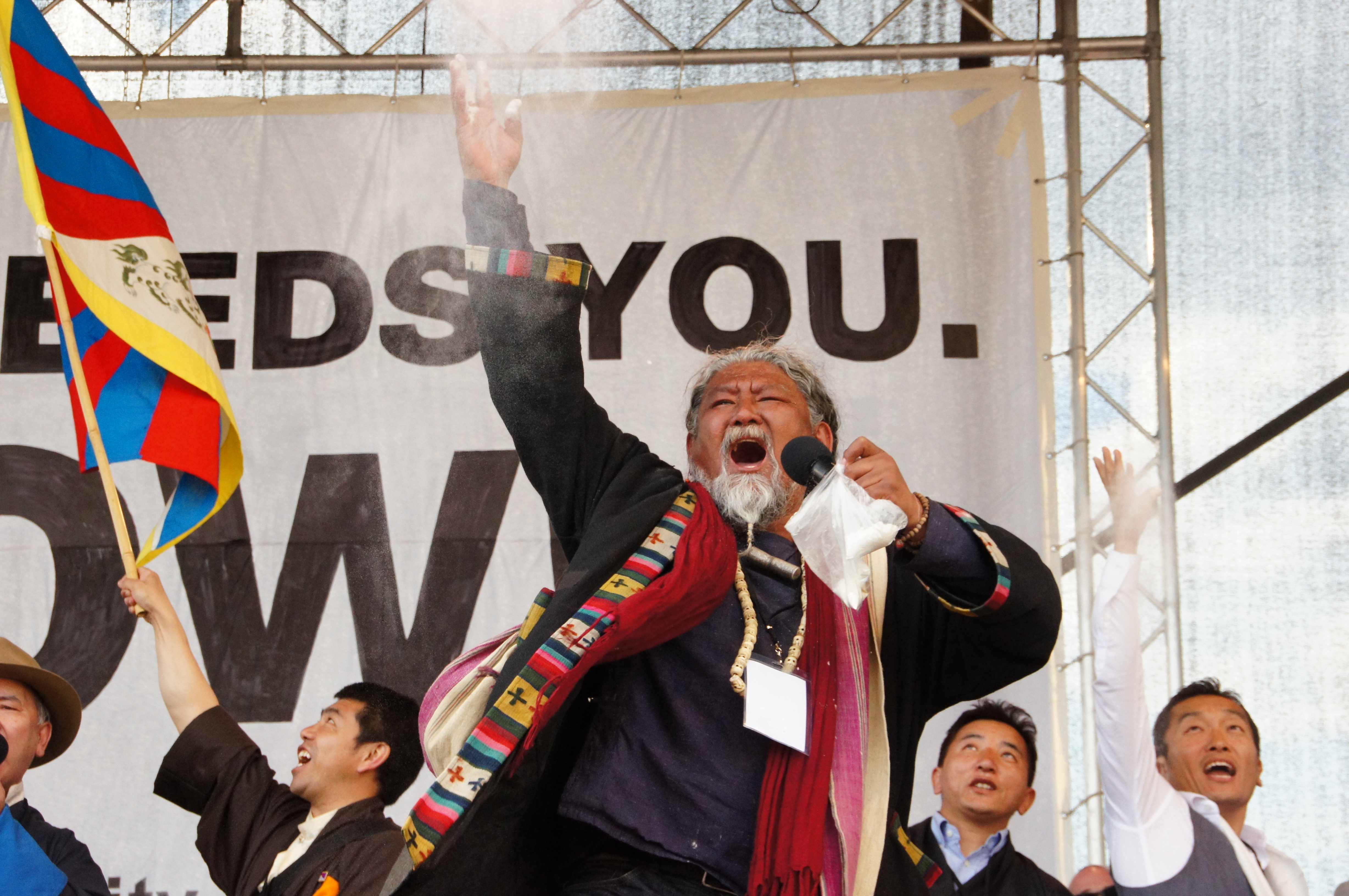 Loten Namling executing final ceremony of 'Europe for Tibet Solidarity Rally'. -- This ceremony consists in pronouncing some Tibetan wellwhishing words whilst throwing tsampa (roasted barley flour) in the air -- done by most of the audience. -- Nice&funny for all-the-audience, but terrifying DSLRs ;) [w.]